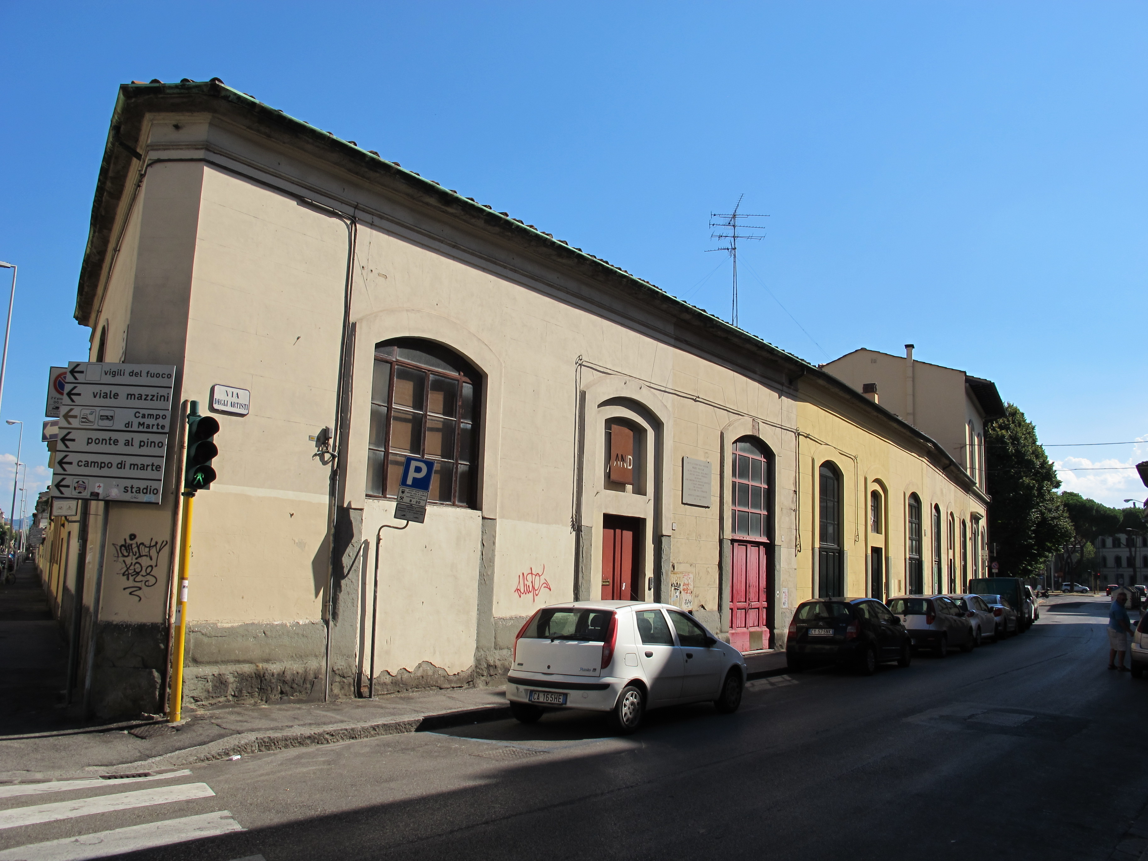 Florence, Italy (see filename)